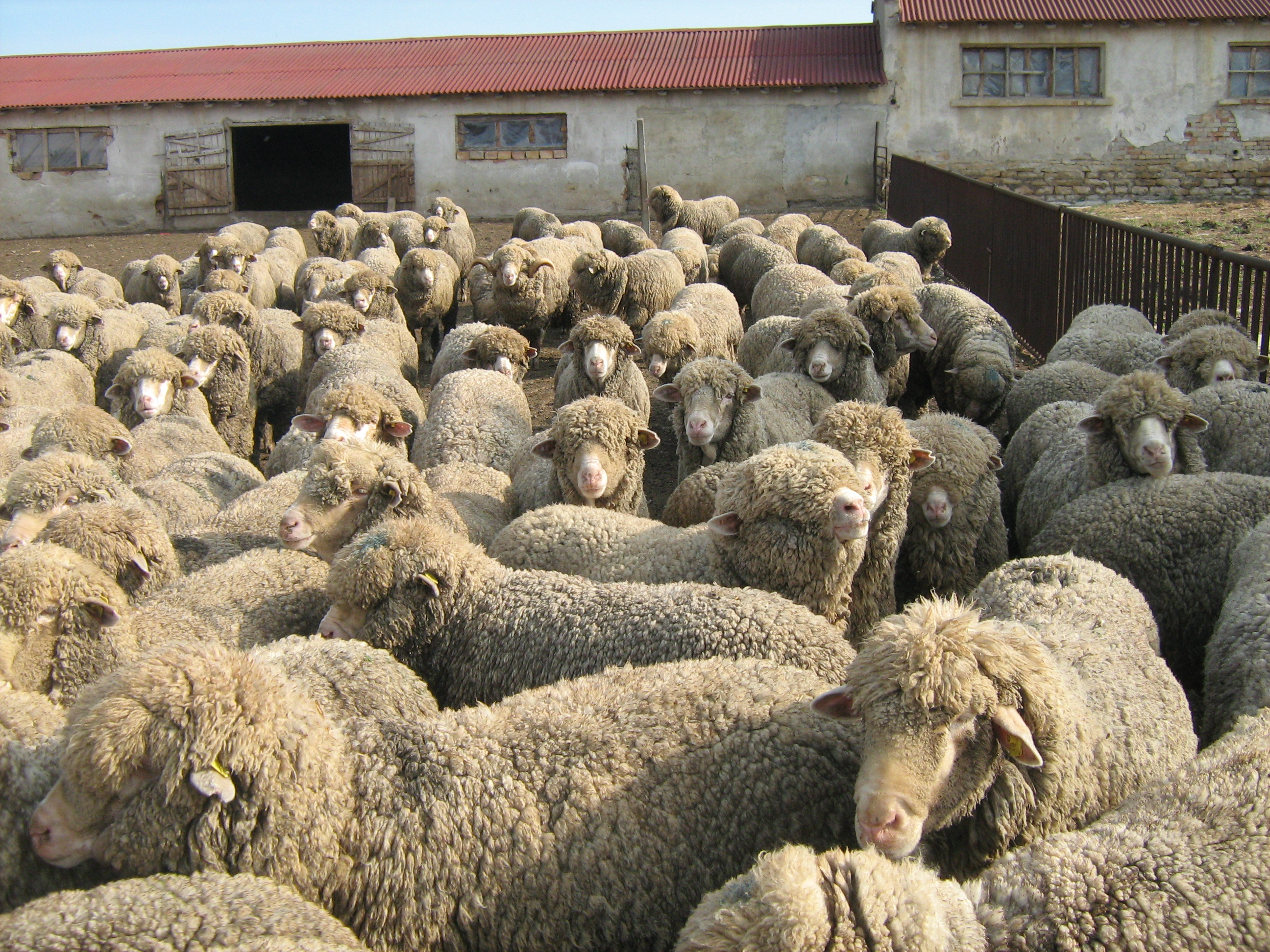 Ascanian Sheep